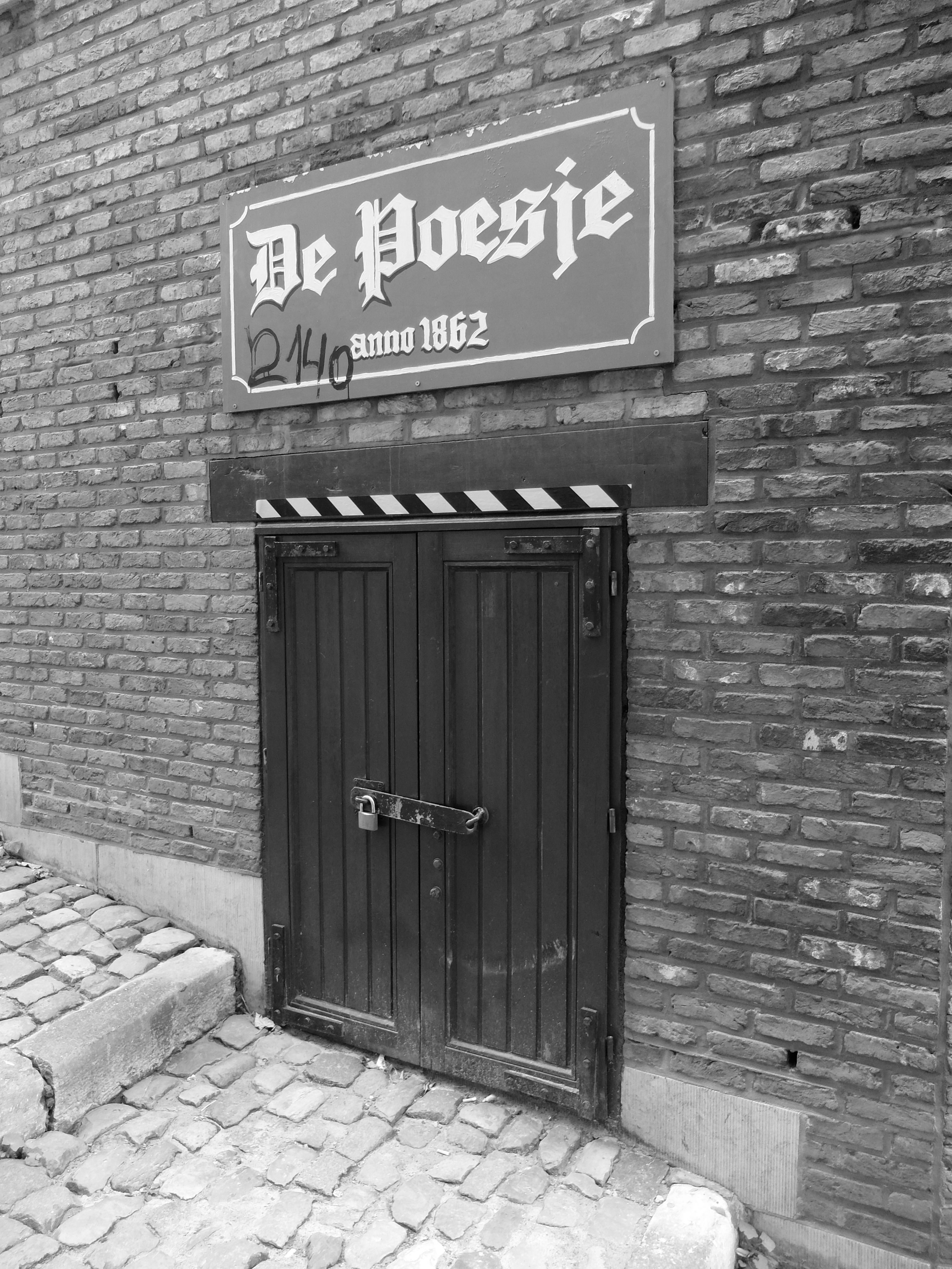 De Poesje in Antwerpen